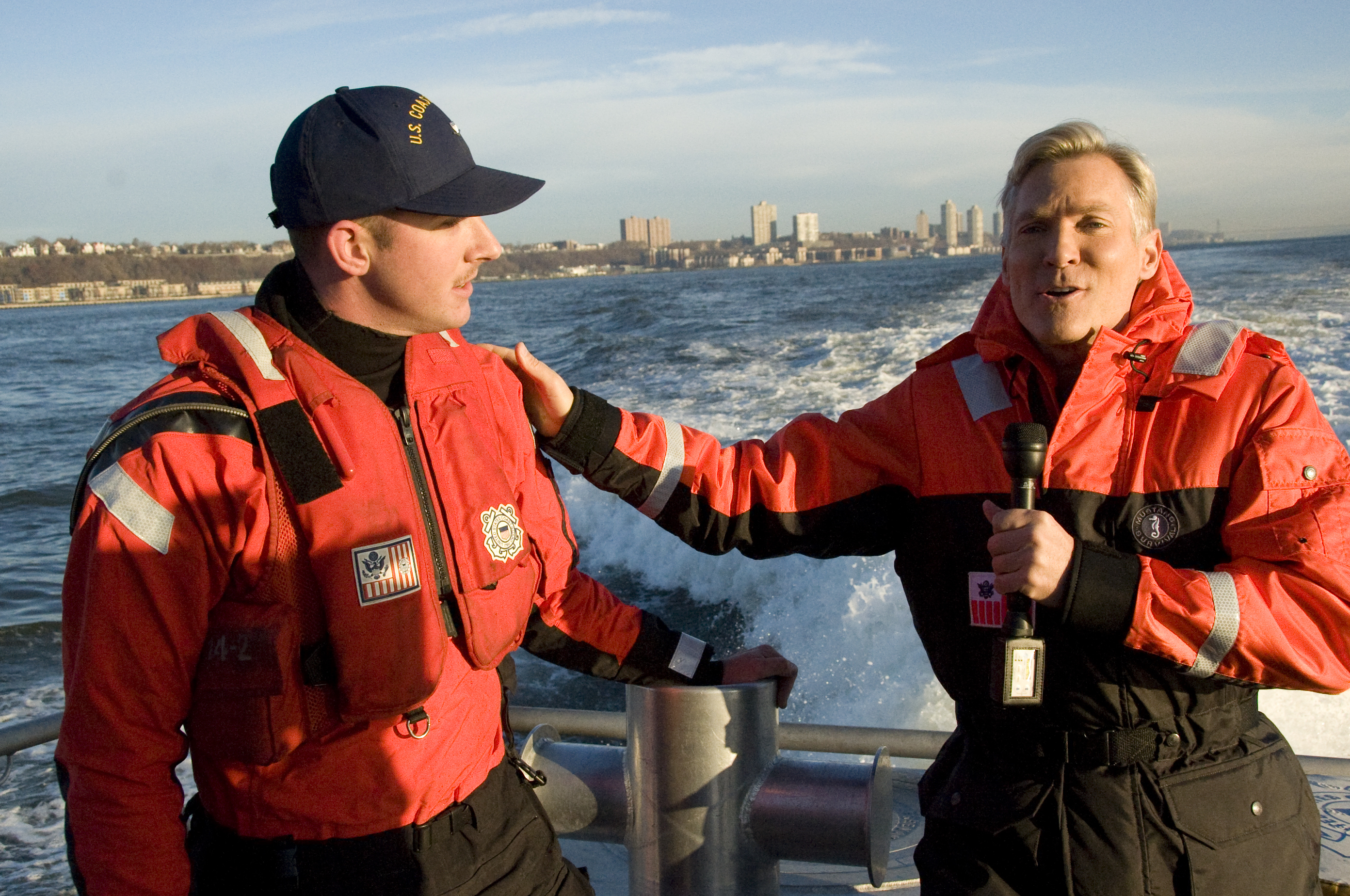 NEW YORK - Coast Guard Station New York boat crews and Good Morning America coordinated efforts with the Food Bank of New York to deliver hot meals by boat to Red Hook, Nov. 21, 2012. Red Hook an area in Brooklyn was severely impacted from the storm surge caused by Hurricane Sandy on October 29. 2012. U.S. Coast Guard photo by Petty Officer 2nd Class Jetta H. Disco. Unit: U.S. Coast Guard District 1 DVIDS Tags: Brooklyn; residents; Thanksgiving; Good Morning America; boatcrew; Station New York; food bank; Hurricane Sandy; storm surge; Red Hook; 45-foot RBM; CGVI; Sam Champion; Food Bank of New York; DVIDS Bulk Import